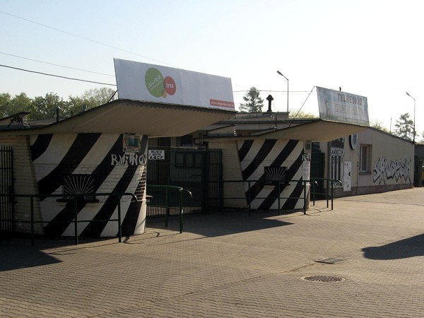 Cash-desks at Sandecja stadium, Nowy Sącz, PL